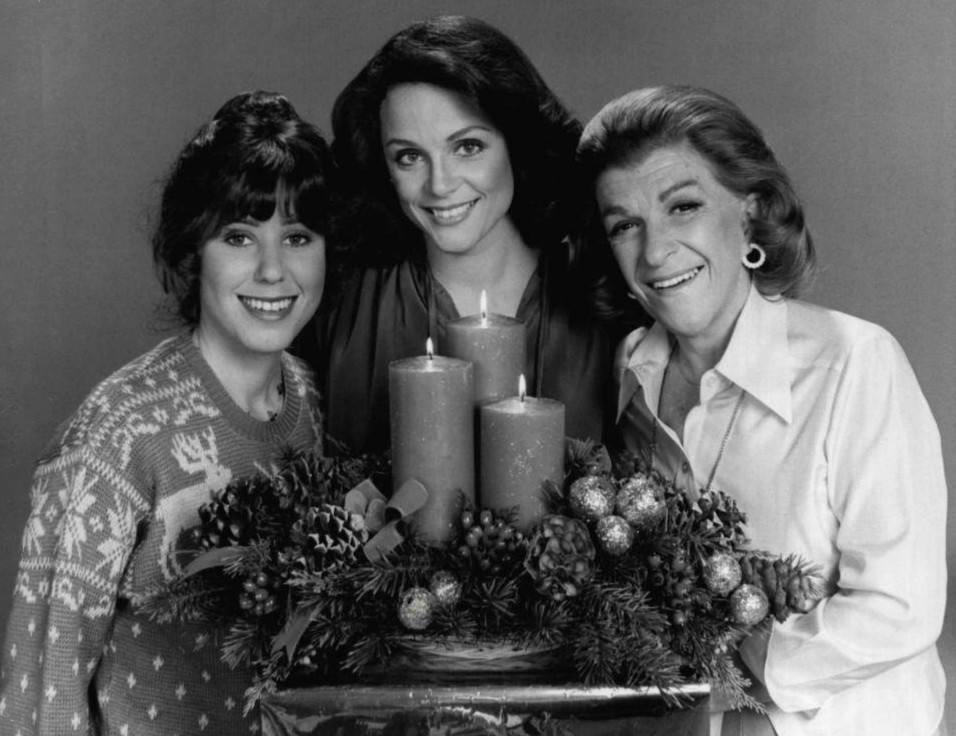 Publicity photo of Valerie Harper, Nancy Walker, and Julie Kavner from Rhoda.